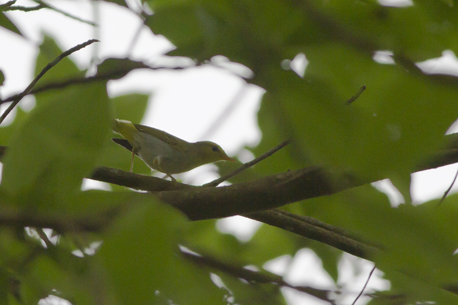 The species Yellow-vented Warbler had been photographed from Mahananda Wildlife Sanctuary in West Bengal, India on 09.05.2016.